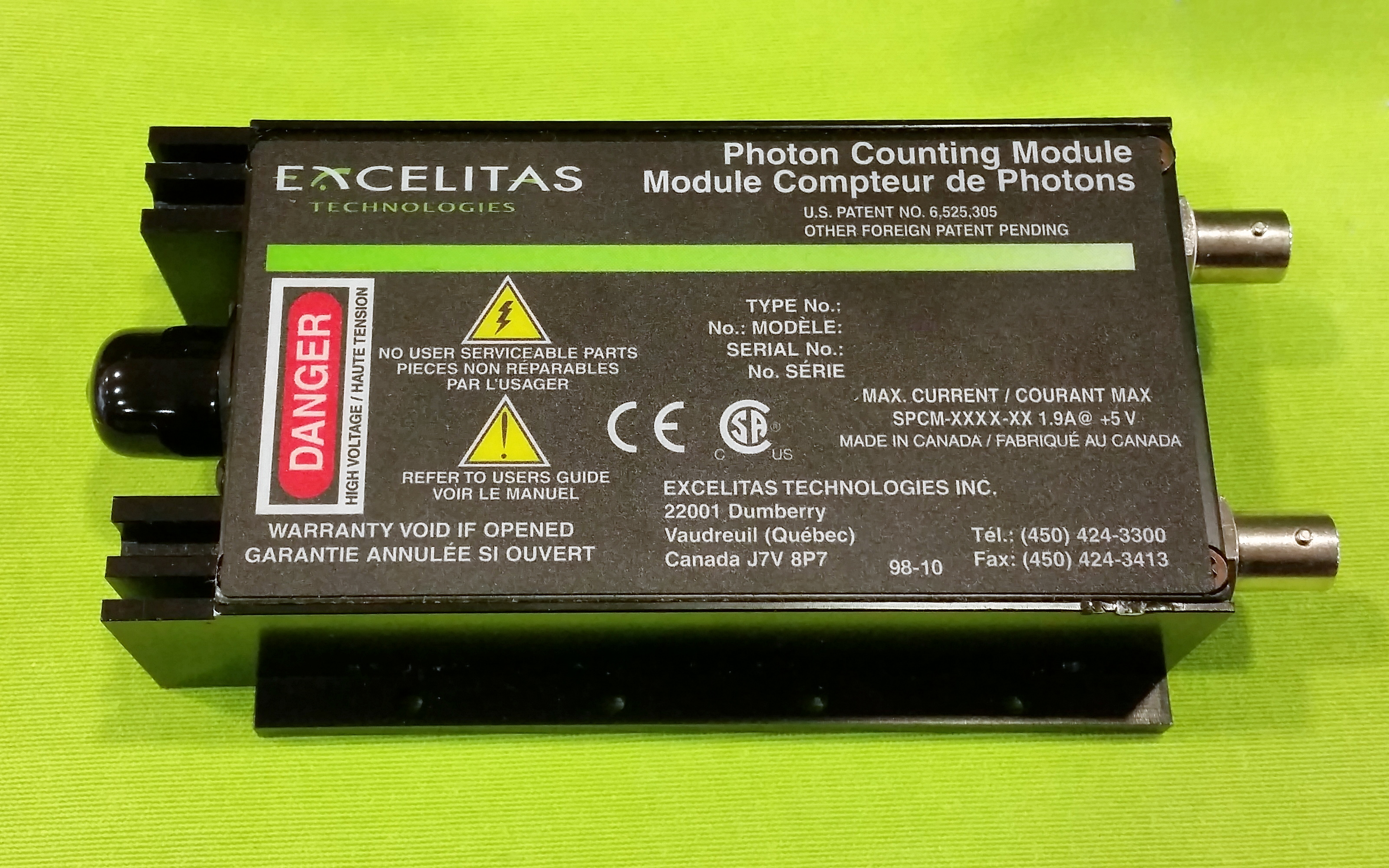 Photograph of a single photon counting module (SPCM) from Excelitas.